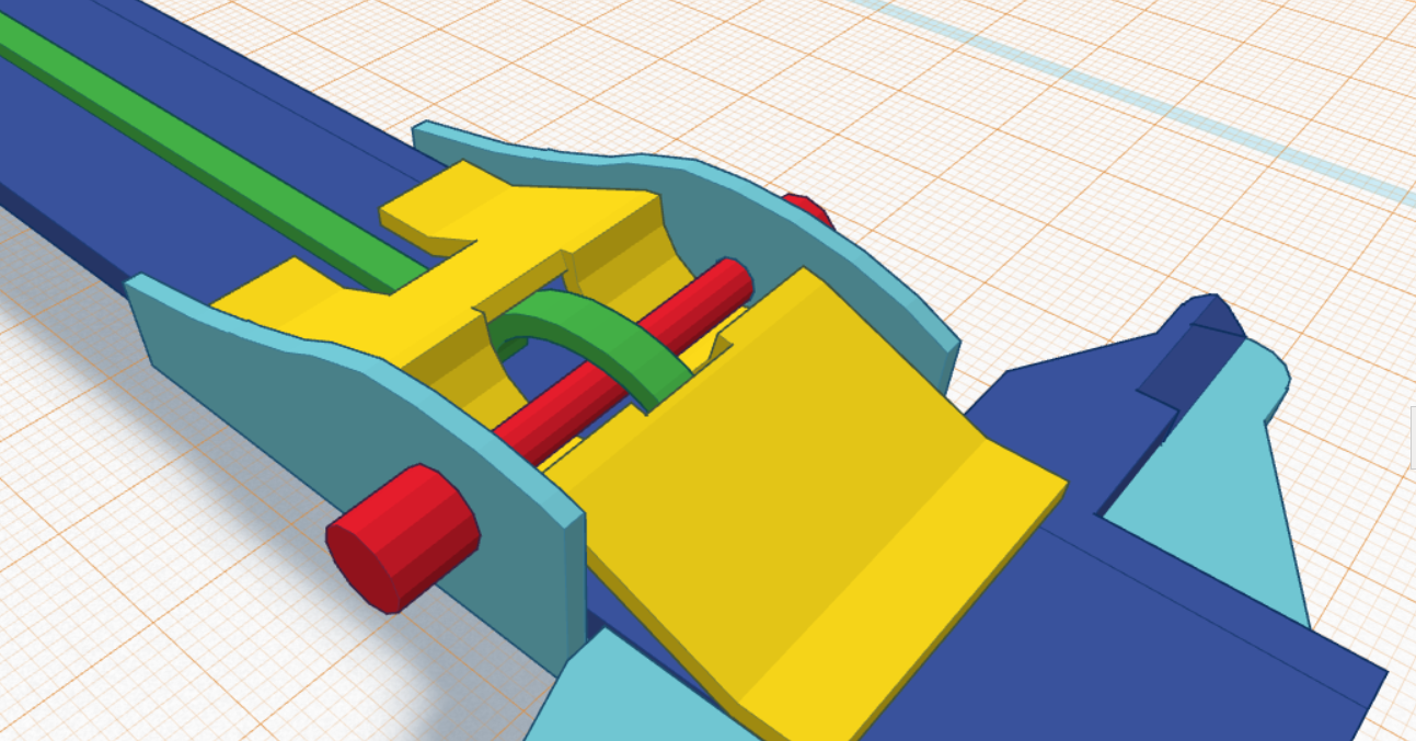 Caliper, drawn with Tinkercad